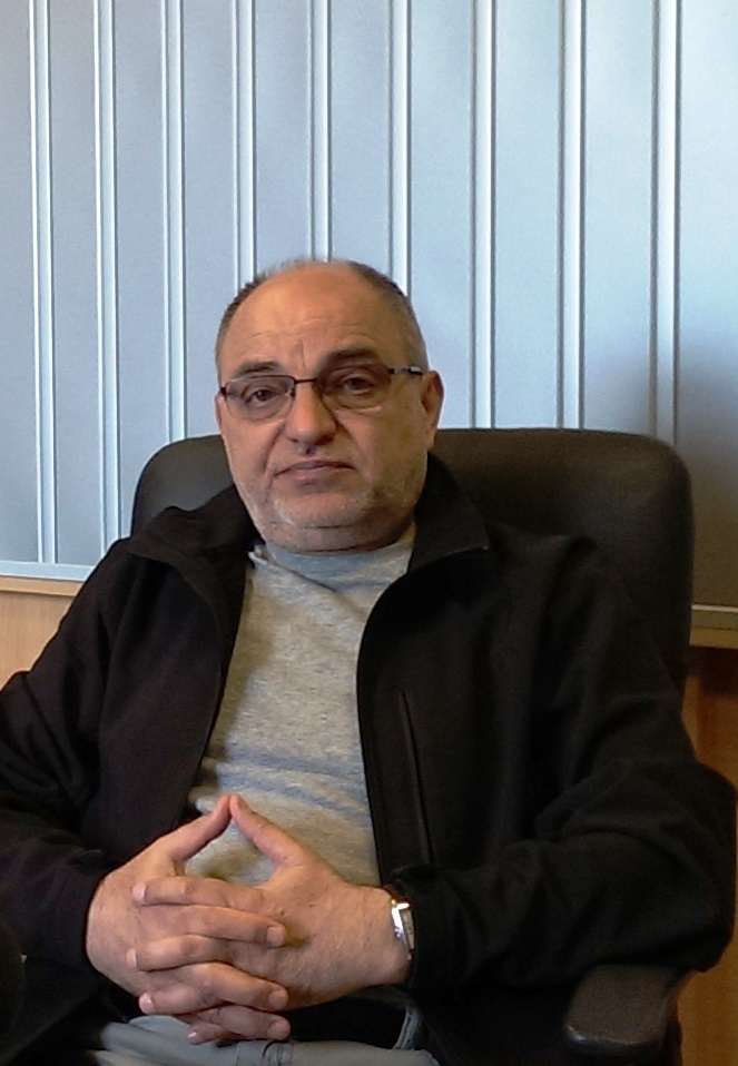 Bulgarian composer Vyacheslav Kushev, 2016